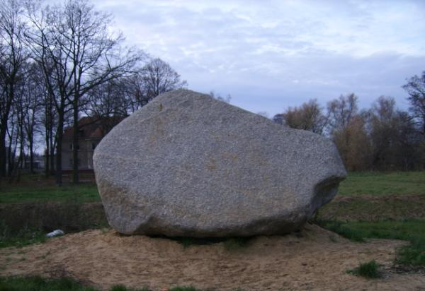 Glacial erratic in Luboń (Źródlana Street)